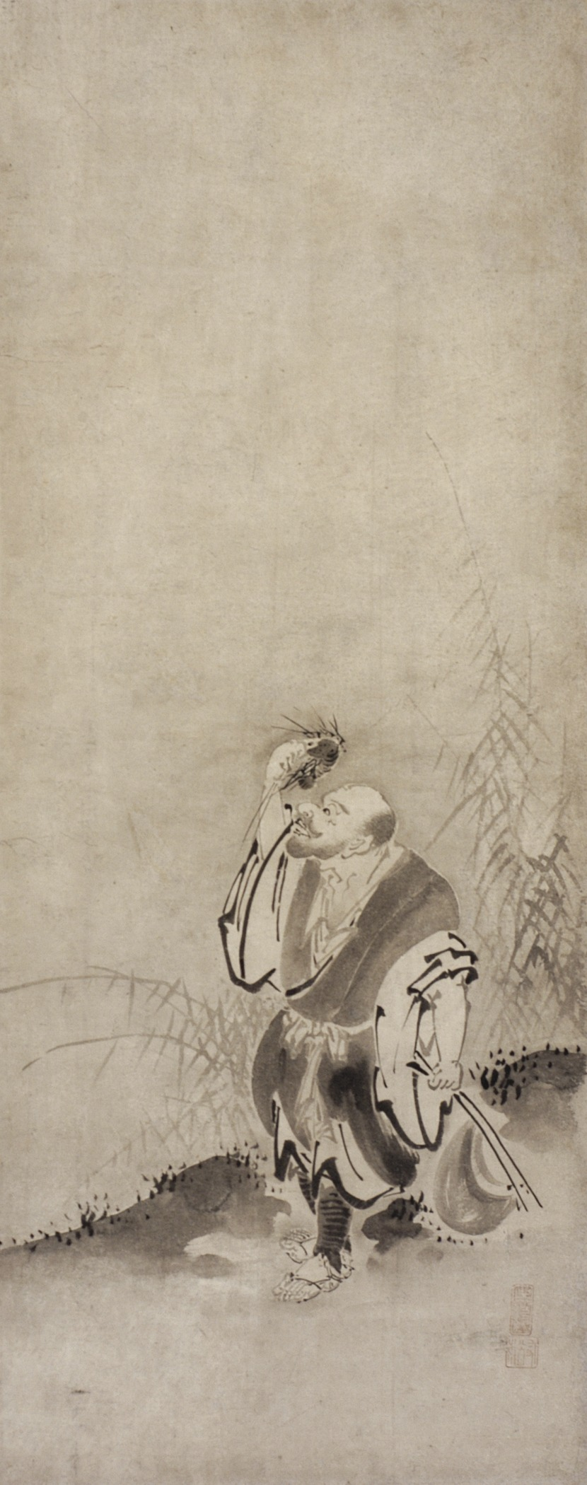 Japan, late 17th - early 18th century Paintings; scrolls Hanging scroll; ink on paper Gift of Laura Bastianelli in loving memory of Jeremy Ets-Hokin (AC1994.139.1) Japanese Art